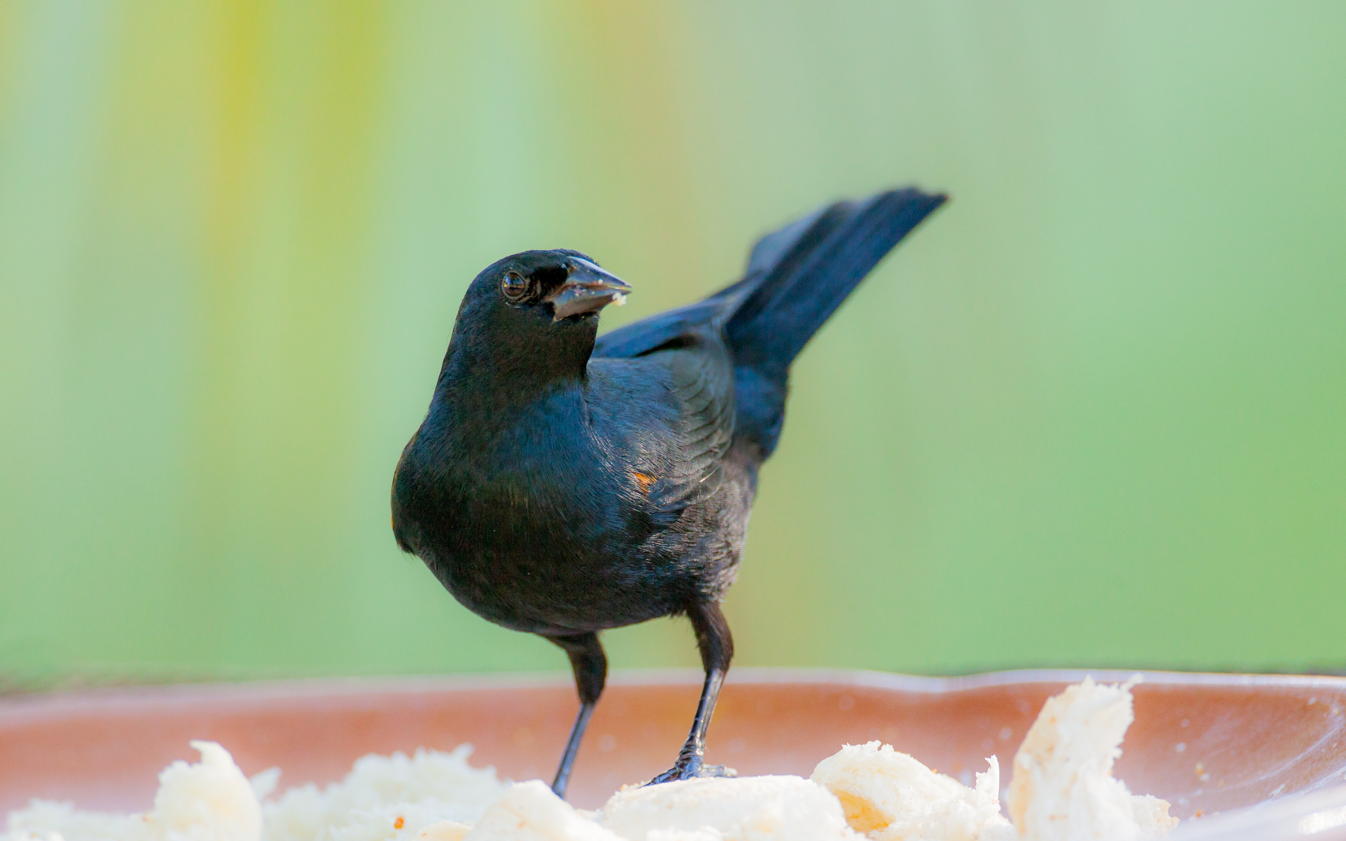 Tawny-shouldered Blackbird Agelaius humeralis, Cuba, near Holguin.